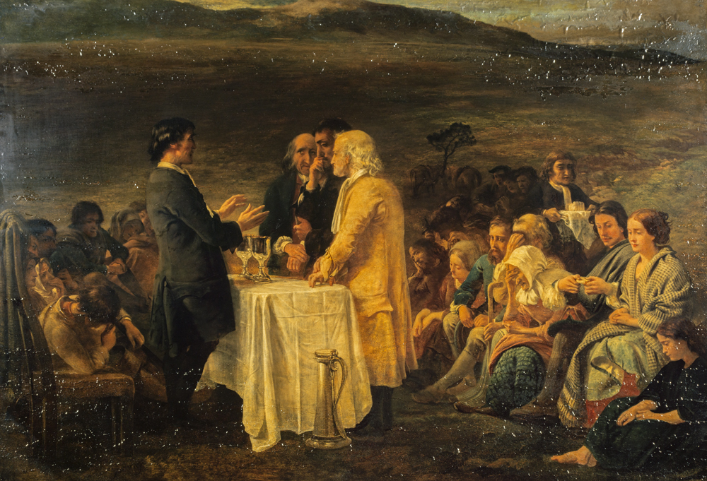 Oil on panel, 98.3 x 114 cm Collection: National Galleries of Scotland